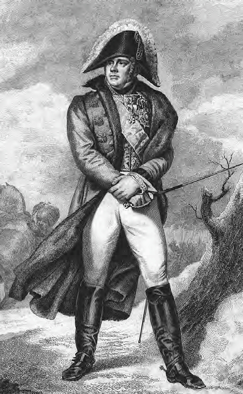 Michel Ney. Known as “The Bravest of the Brave”, and arguably Napoleon’s greatest marshal, Ney displayed great courage in action, above all during the retreat from Moscow, when he was reputed to have been the last Frenchman to leave Russian soil.